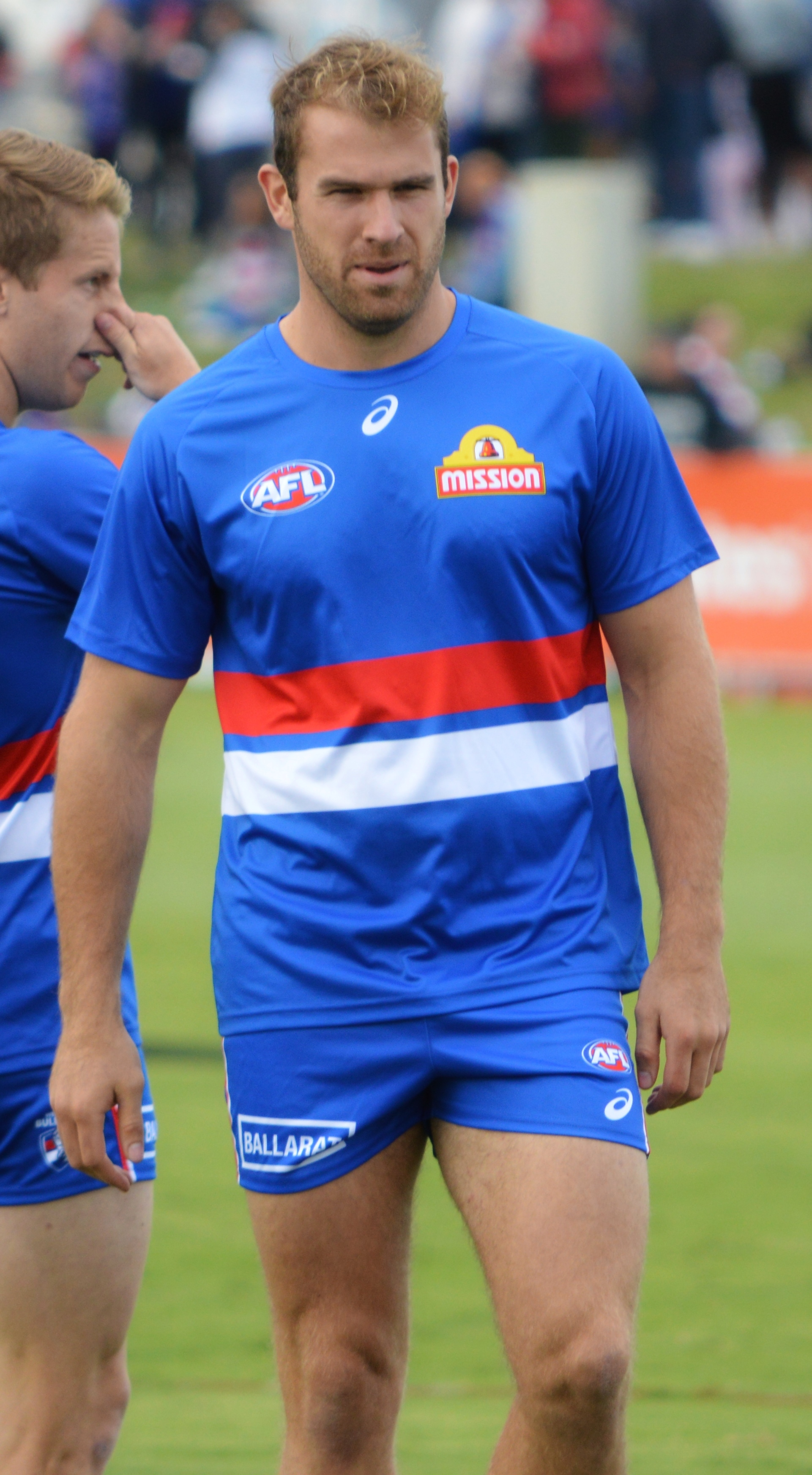 Stewart Crameri warming up prior to a pre-season game in February 2017